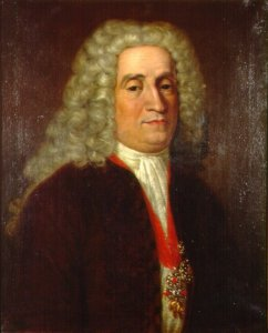 José Patiño (1666-1736) - spanish statesman